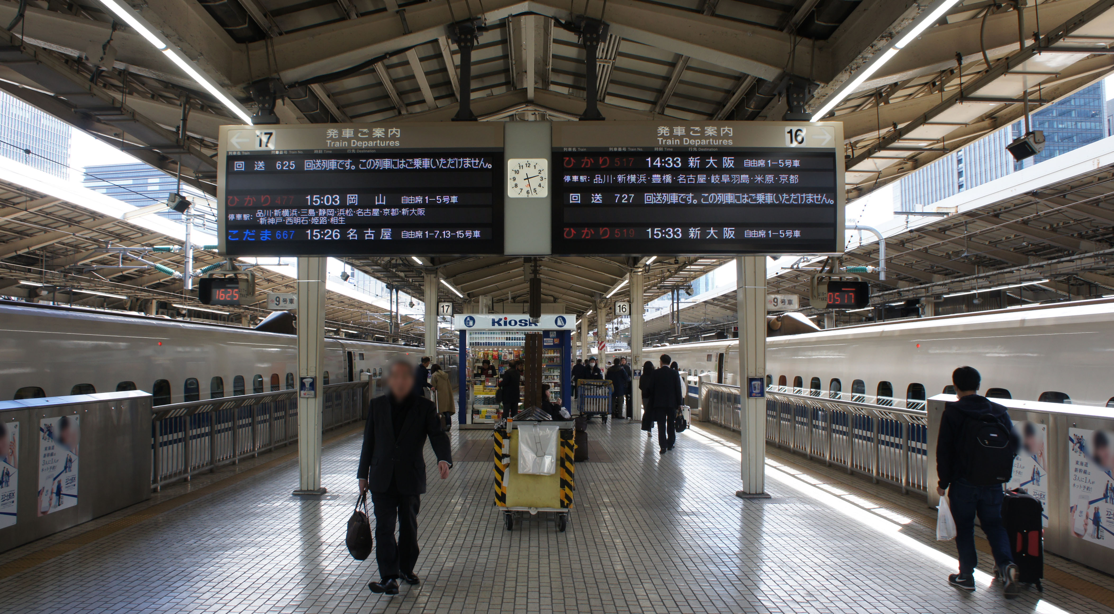 JR Tokyo Station Platform 16・17 (Tokaido Shinkansen) Sony NEX-3 + E 18-55mm F3.5-5.6 OSS